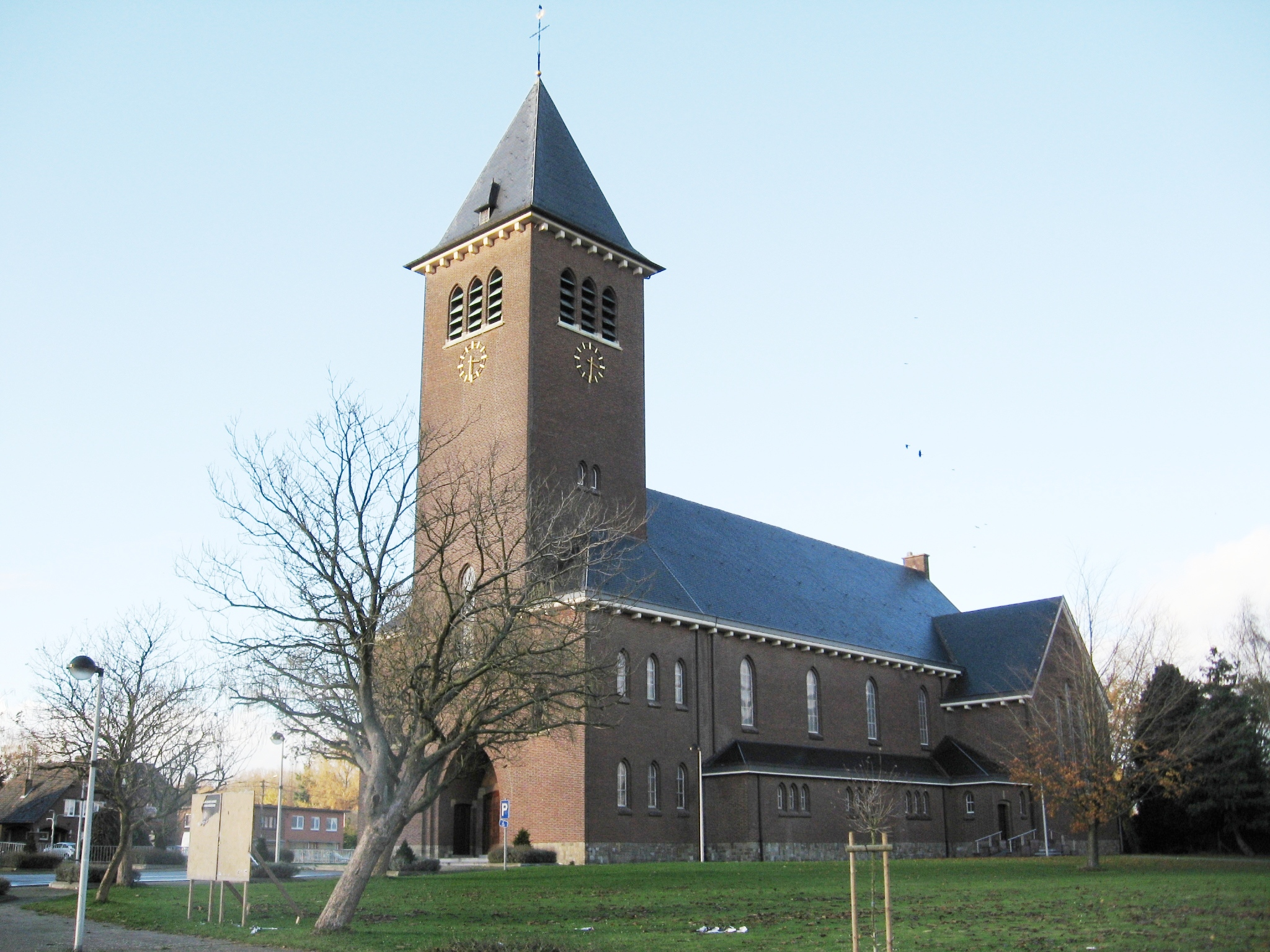 Church of Saint Paul in Lanklaar, Dilsen-Stokkem, Limburg, Belgium